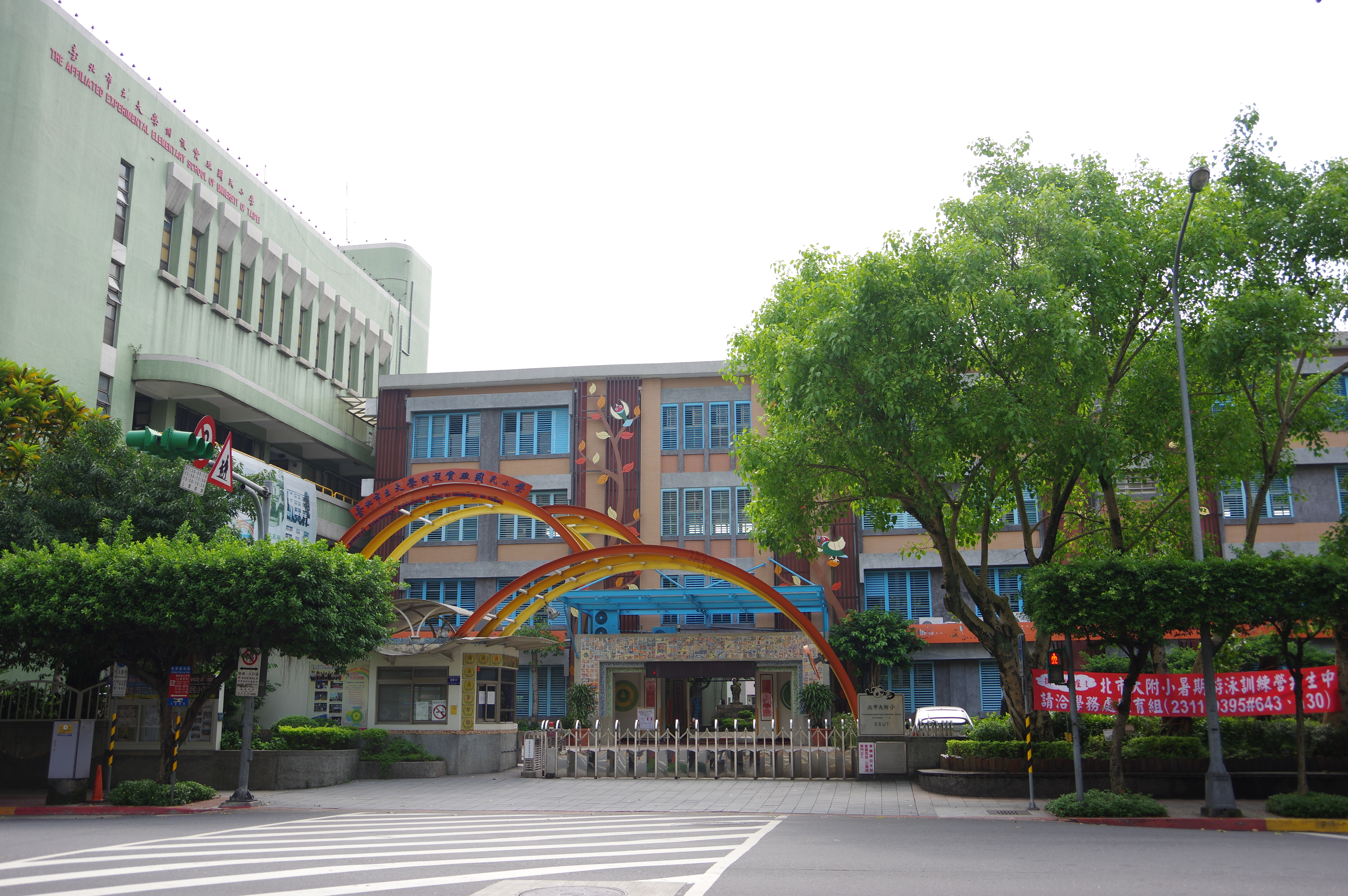 Affiliated Experimental Elementary School of University of Taipei